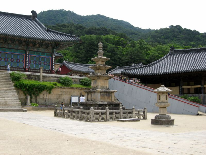 Haeinsa (해인사, Temple of Reflection on a Smooth Sea) is one of the foremost Chogye Buddhist temples in South Korea. It is most notable for being the home of the Tripitaka Koreana, the whole of the Buddhist Scriptures carved onto 81,258 wooden printing blocks, which it has housed since 1398.